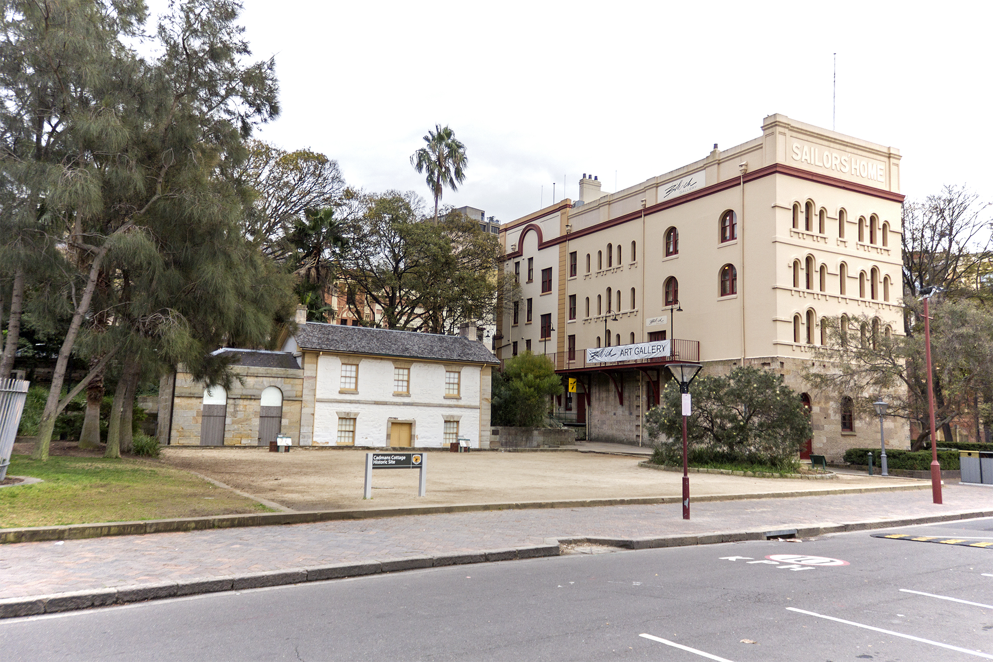 Cadmans Cottage and the Sailors' Home at The Rocks, New South Wales.